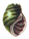 drawing of the shell of Leptoxis taeniata